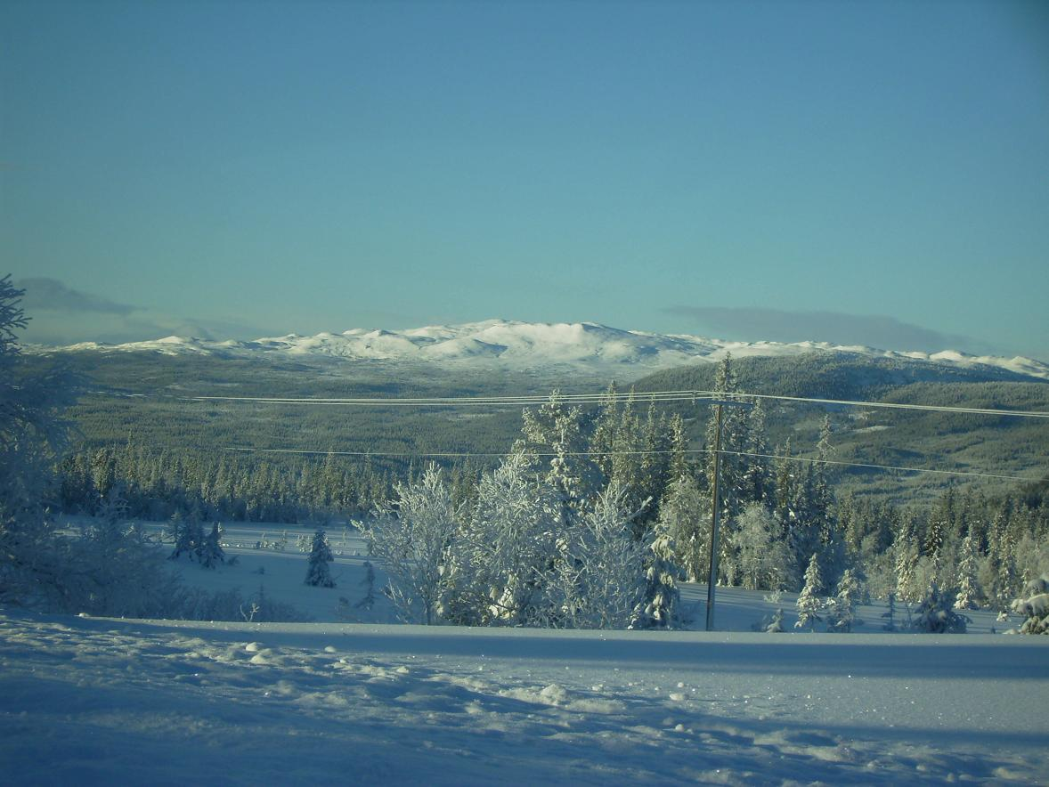 Spaatind